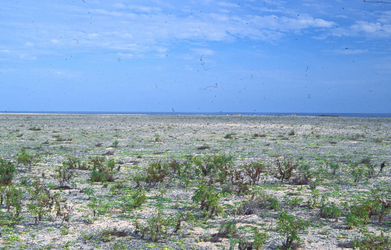 The bare interior of Starbuck Island, Line Islands, Kiribati